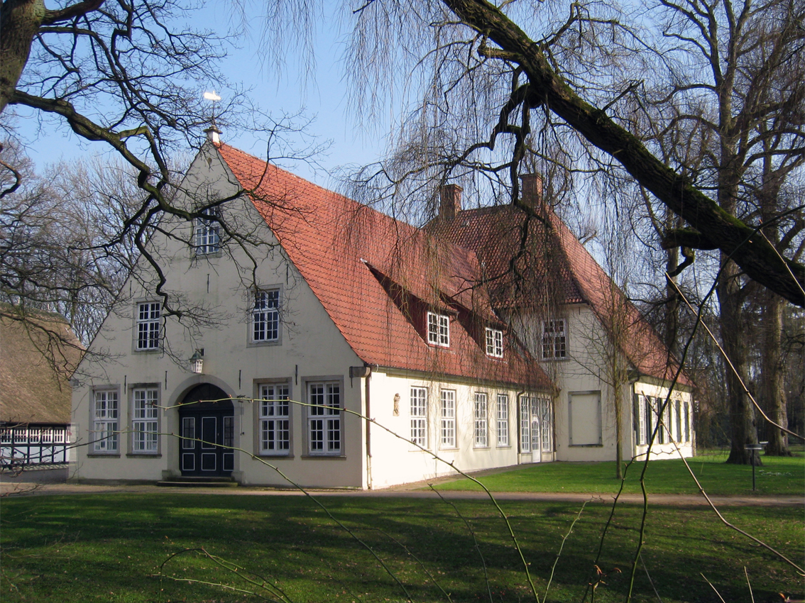 The former manor house Gut Riensberg (now part of the Focke-Museum) in Bremen, Germany.